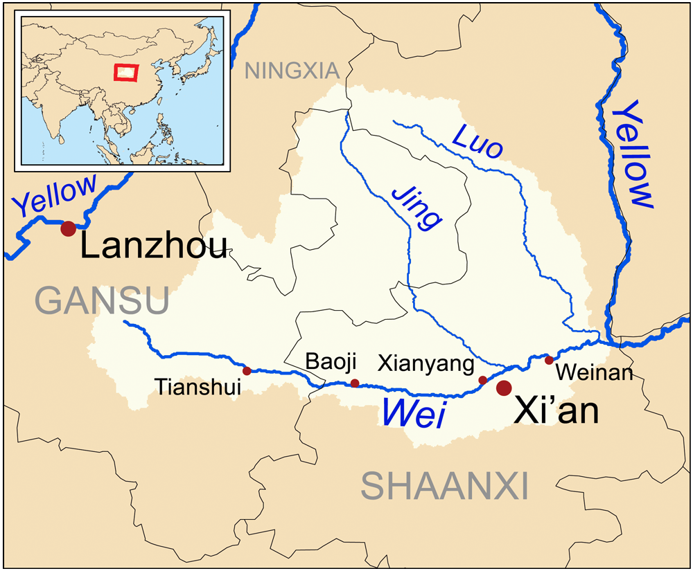 This is a map of the Wei River drainage basin.